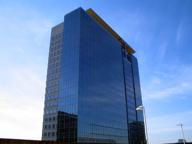 BMC Software Campus building 4, Houston, Texas